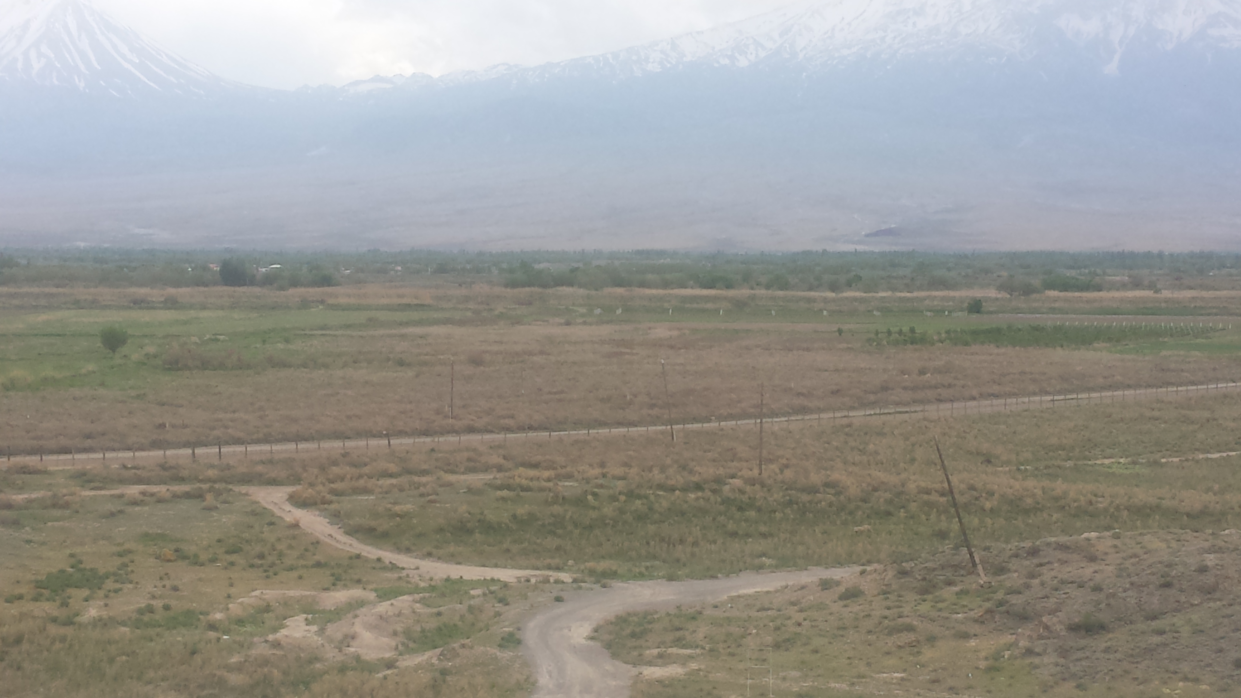 Armenian-Turkish border near Khor Virap